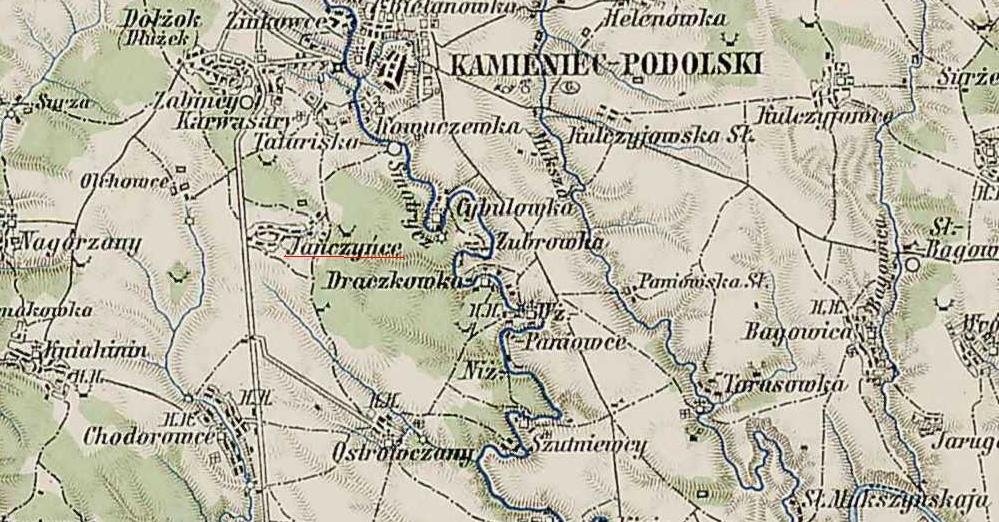 The area around Janczyńce on a military Austrian map